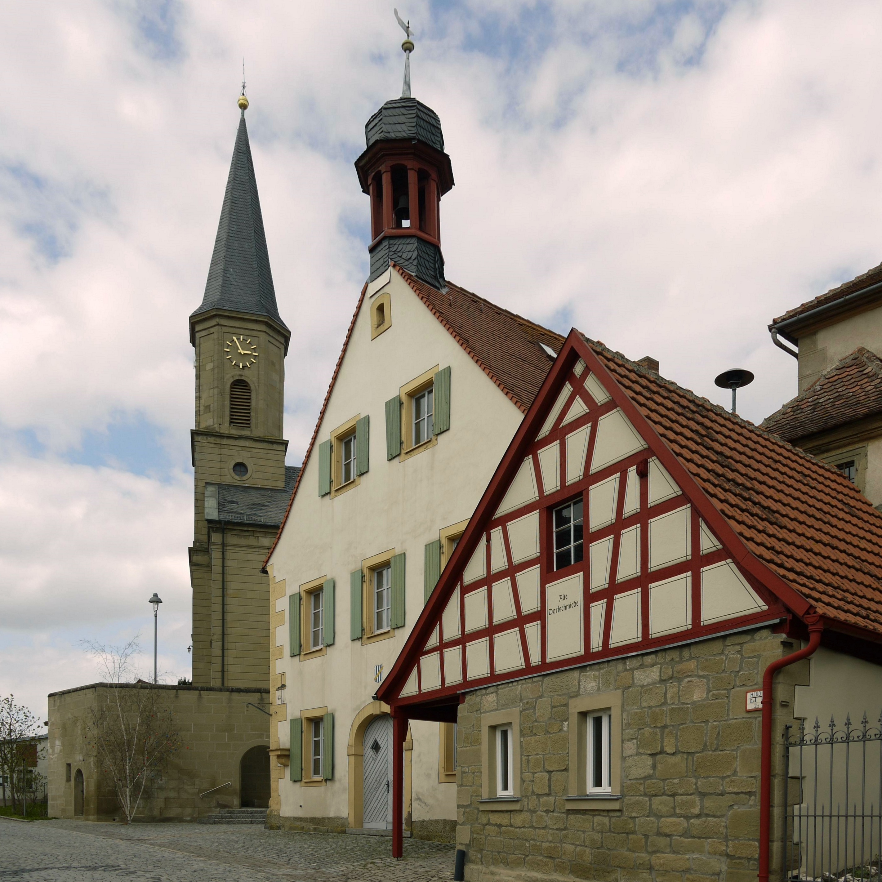 Seinsheim in Bavaria